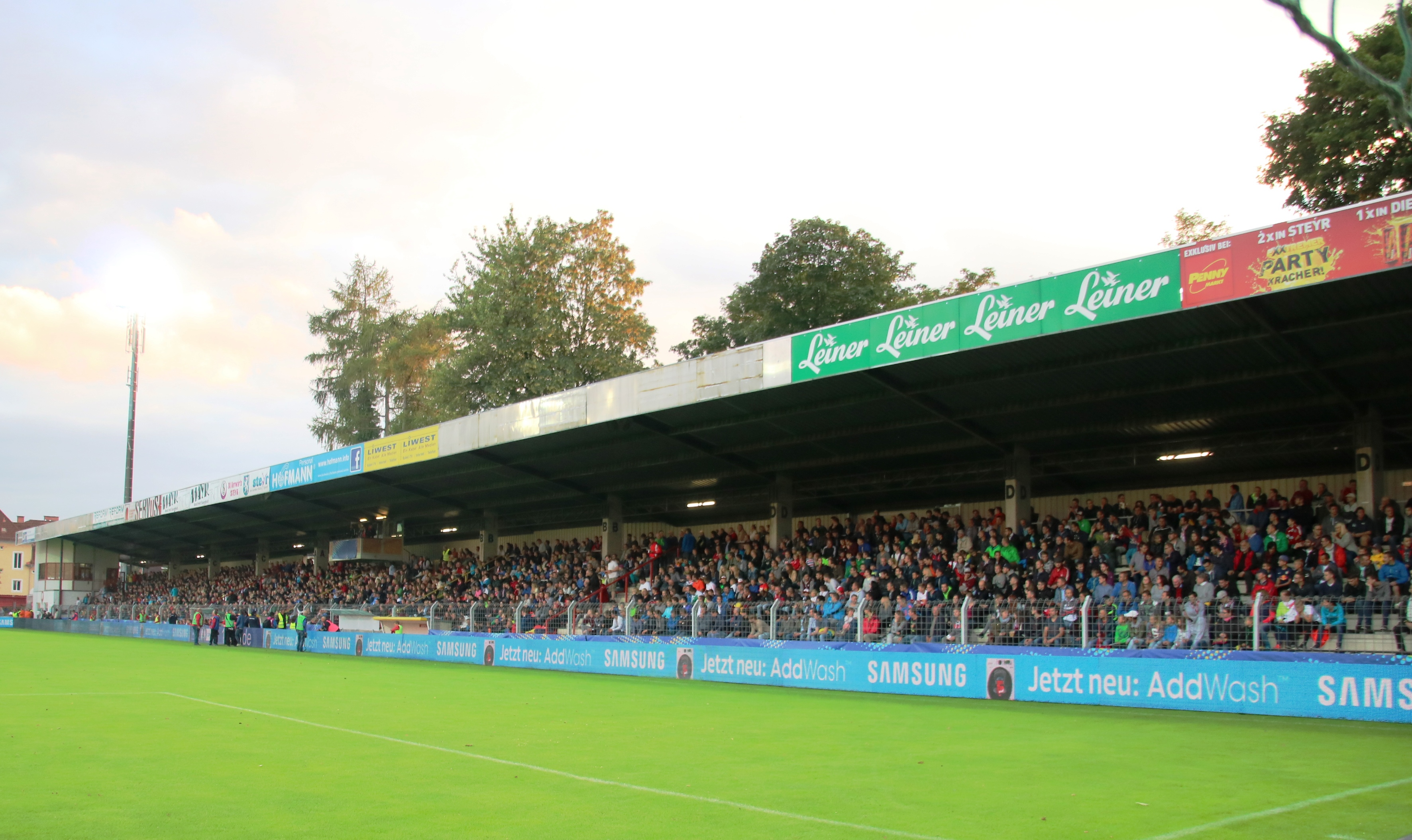 Austrian Cup 1st round